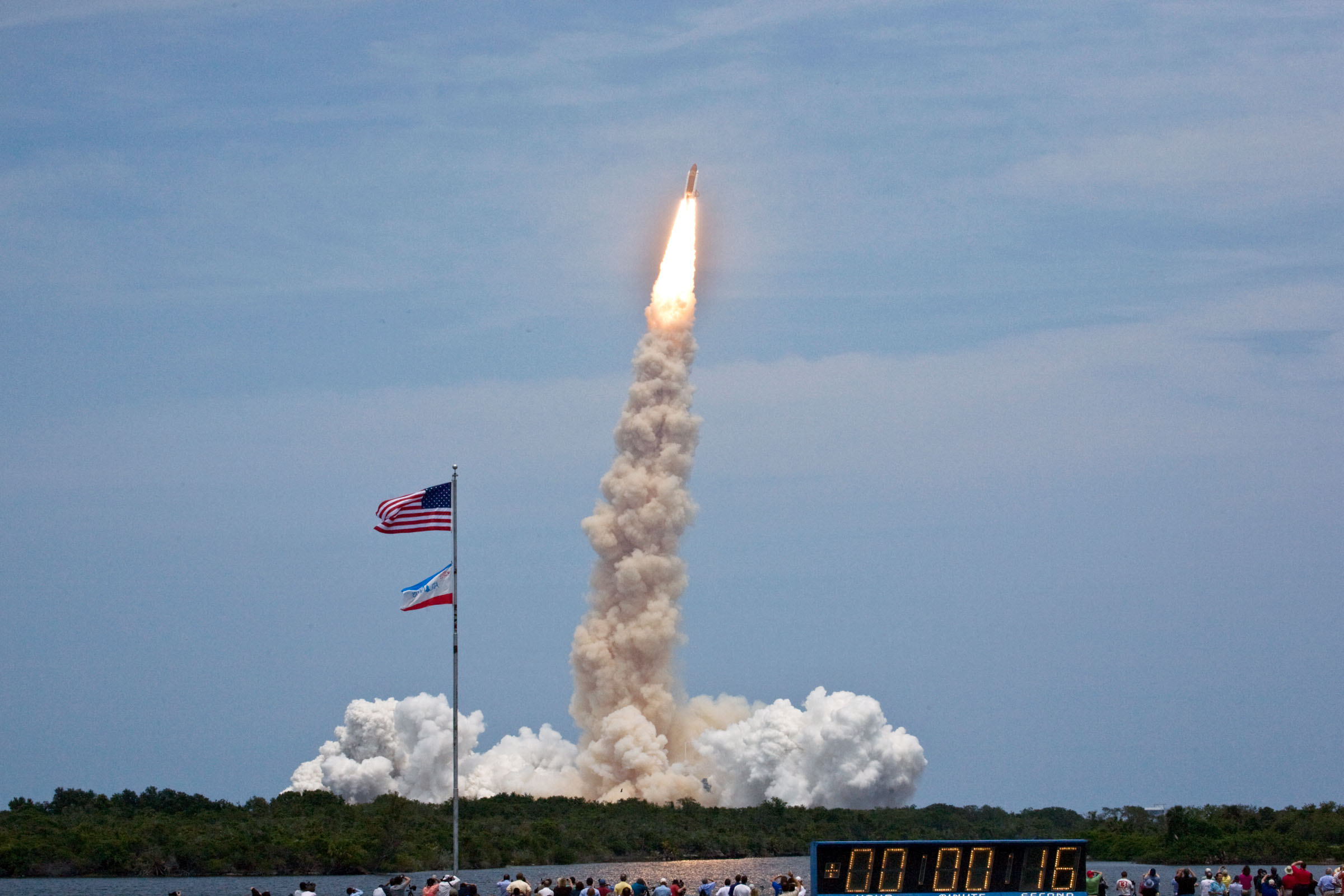 STS-125 Launch